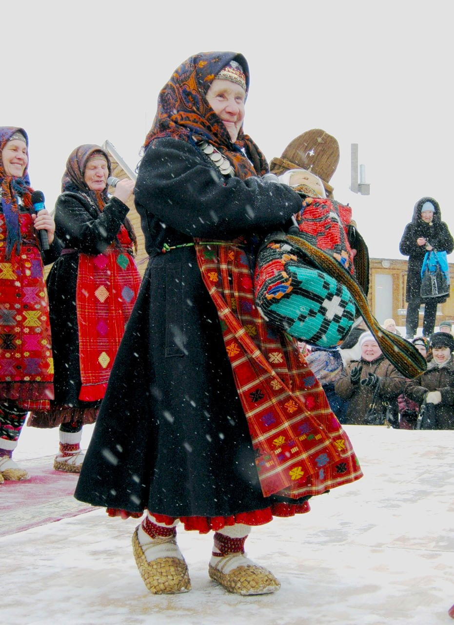 Buranovskiye Babushki